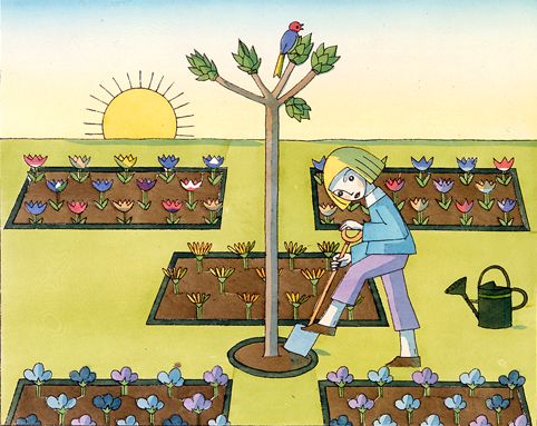 Tom Seidmann-Freud (1892-1930) was a female author and illustrator of children´s books